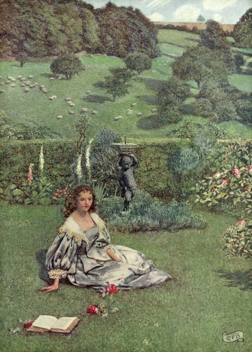 The Book of old English songs and ballads